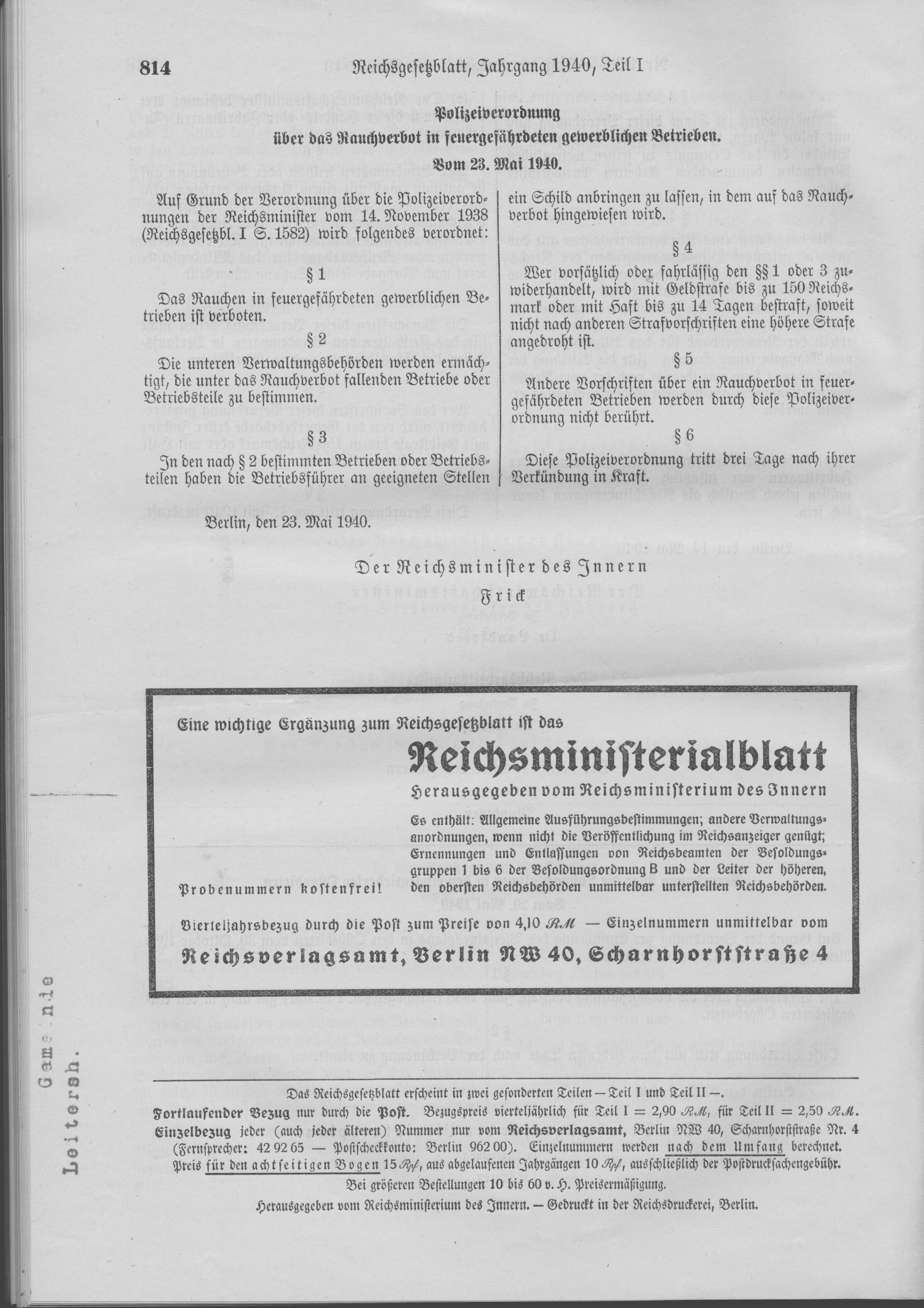 Scan from the Imperial Law Gazette of Germany, 1940, part 1